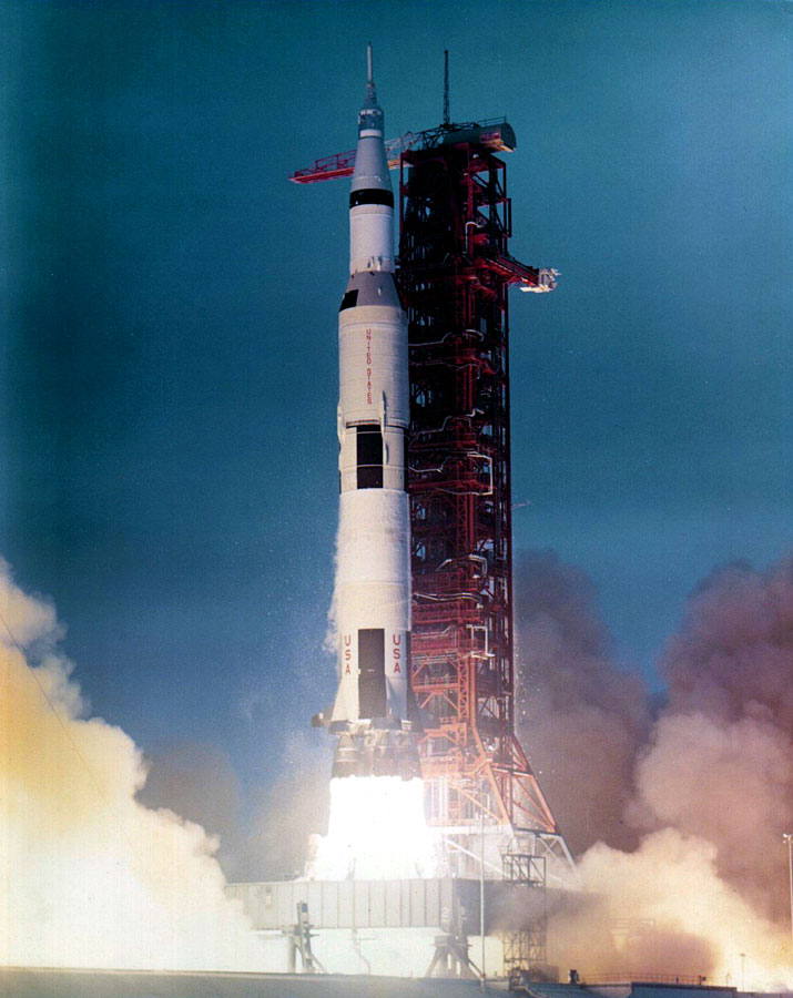 Launch Apollo 9 from LC 39A Kennedy Space Center